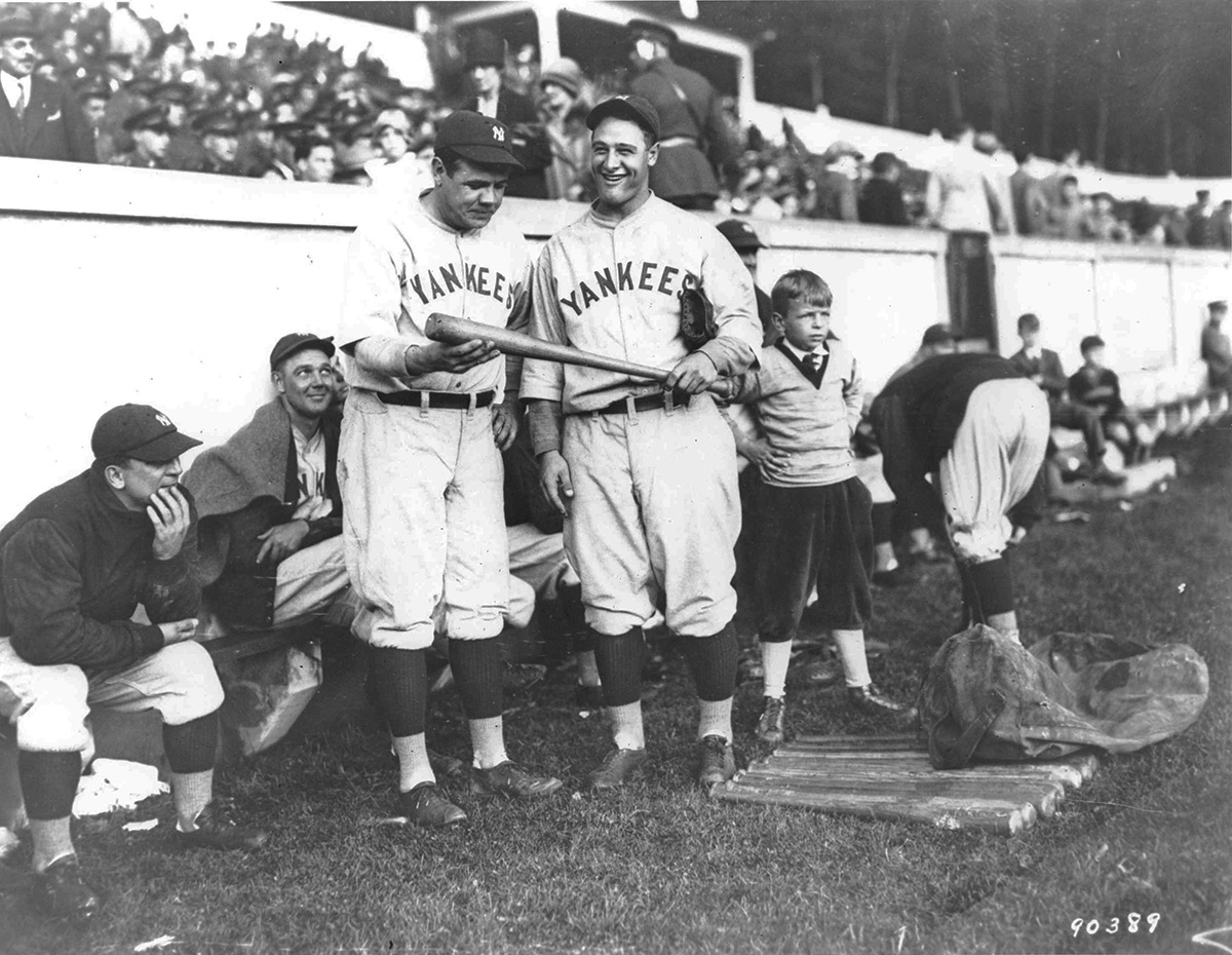 Babe Ruth and Lou Gehrig at United States Military Academy, West Point, NY